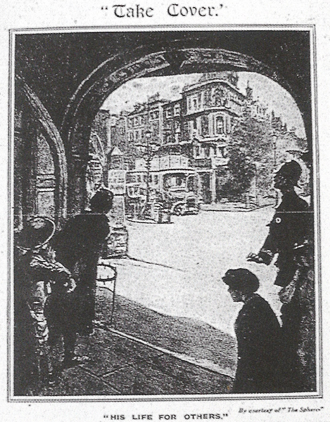 Illustration of PC Alfred Smith, who died whilst ushering 150 women and children to safety in Central Street, London, during a German air raid on 13 June 1917